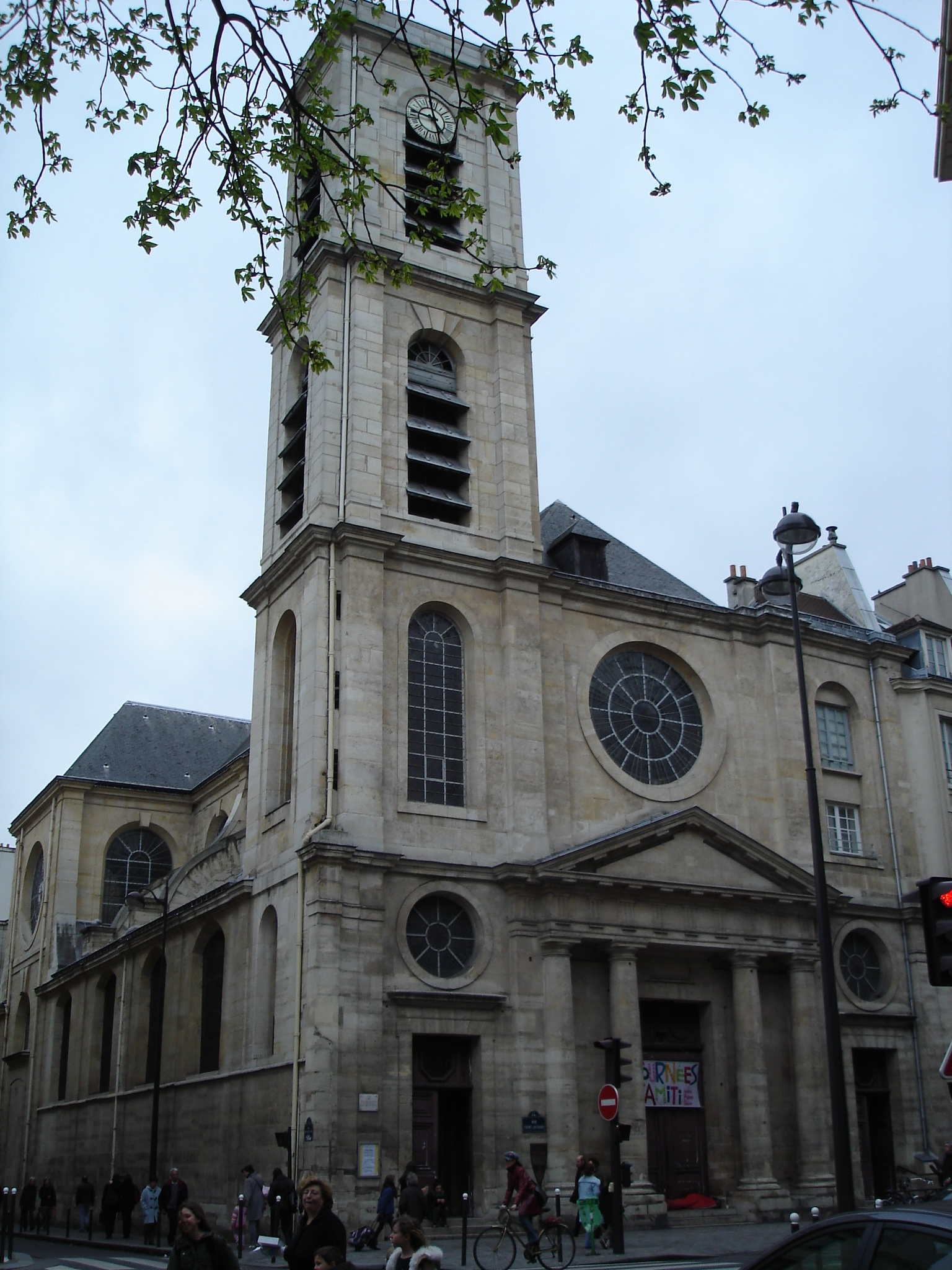 Perspective view of Église Saint-Jacques-du-Haut-Pas (rue Saint-Jacques - Paris Ve arrondissement)